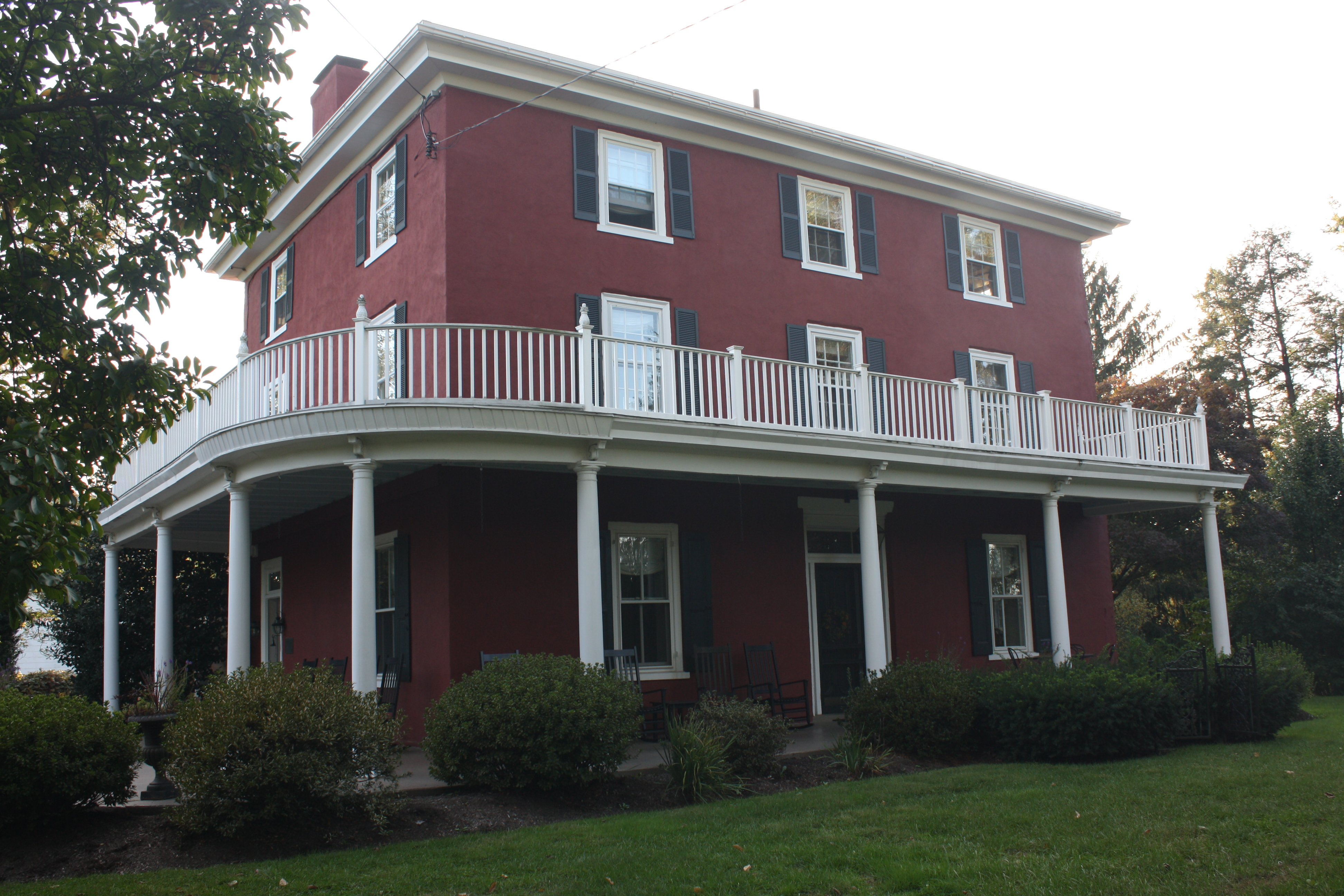 Oscar Hammerstein II Farm, Doylestown, PA. 70 East Road. Object location40° 18′ 35″ N, 75° 06′ 45″ W